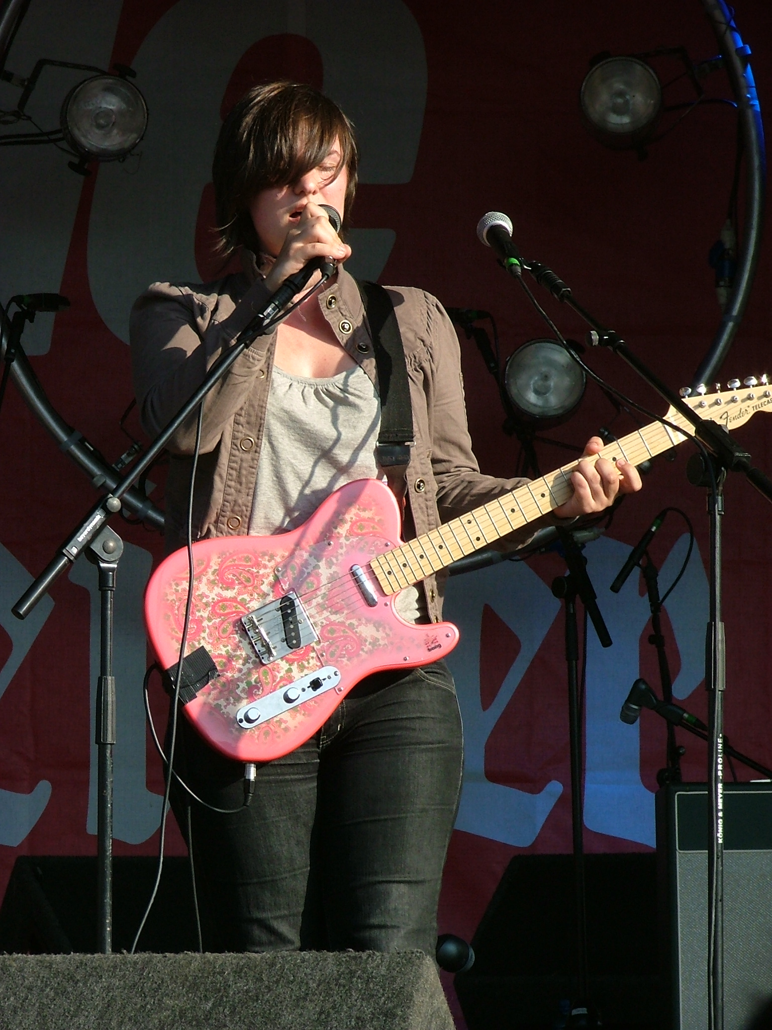 Rose Kemp at Ashton Court Festival 2005. Image EXIF is set incorrectly.